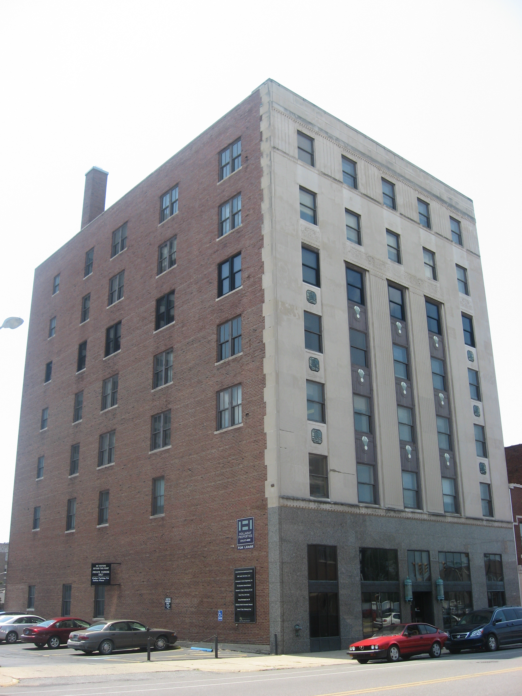 Front and eastern side of the I&M Building, located at 220 W. Colfax Avenue in South Bend, Indiana, United States. Built in 1929, it is listed on the National Register of Historic Places.